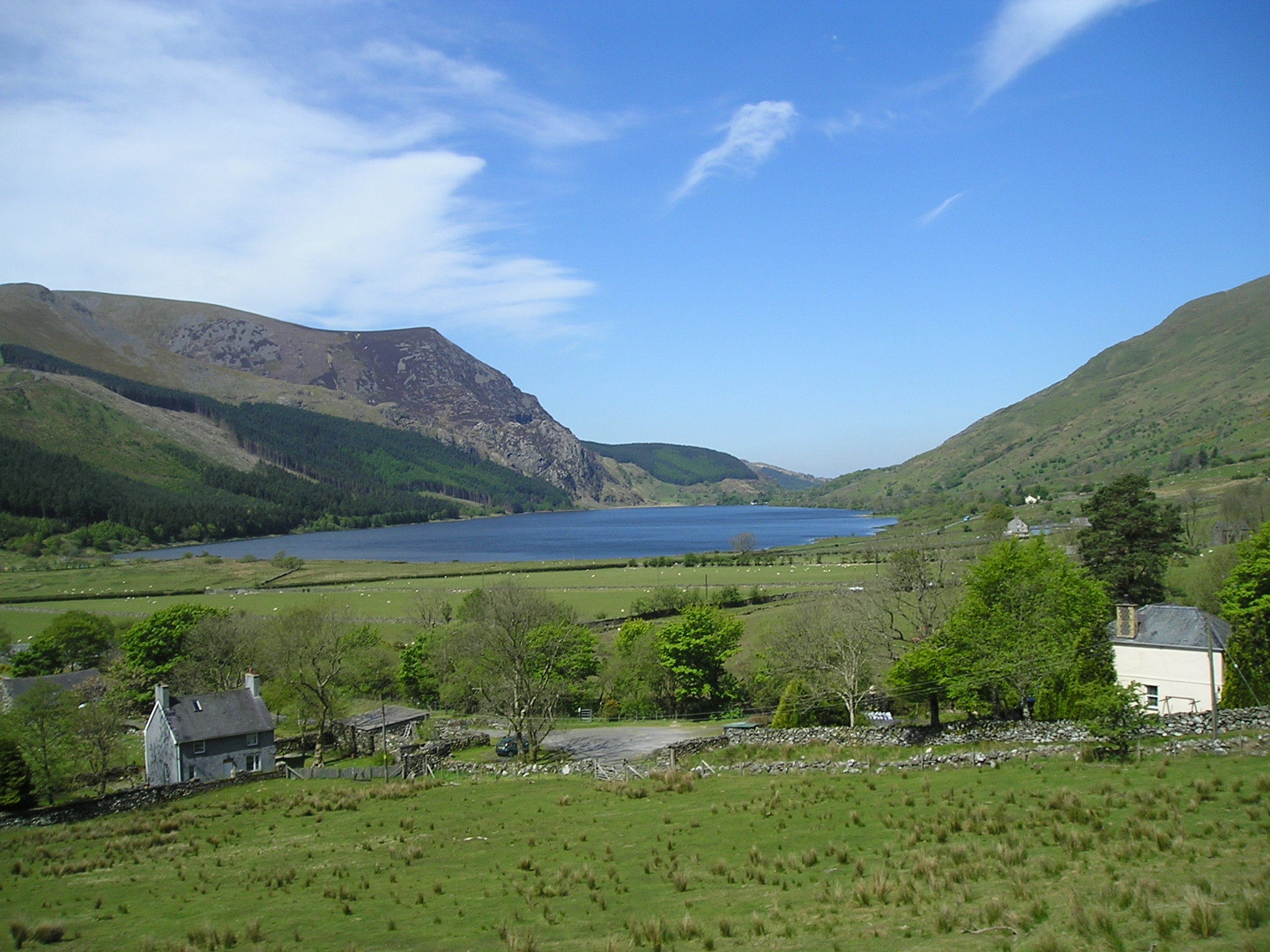 taken by me, Noel Walley